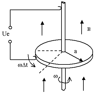 Principle of a homopolar generator